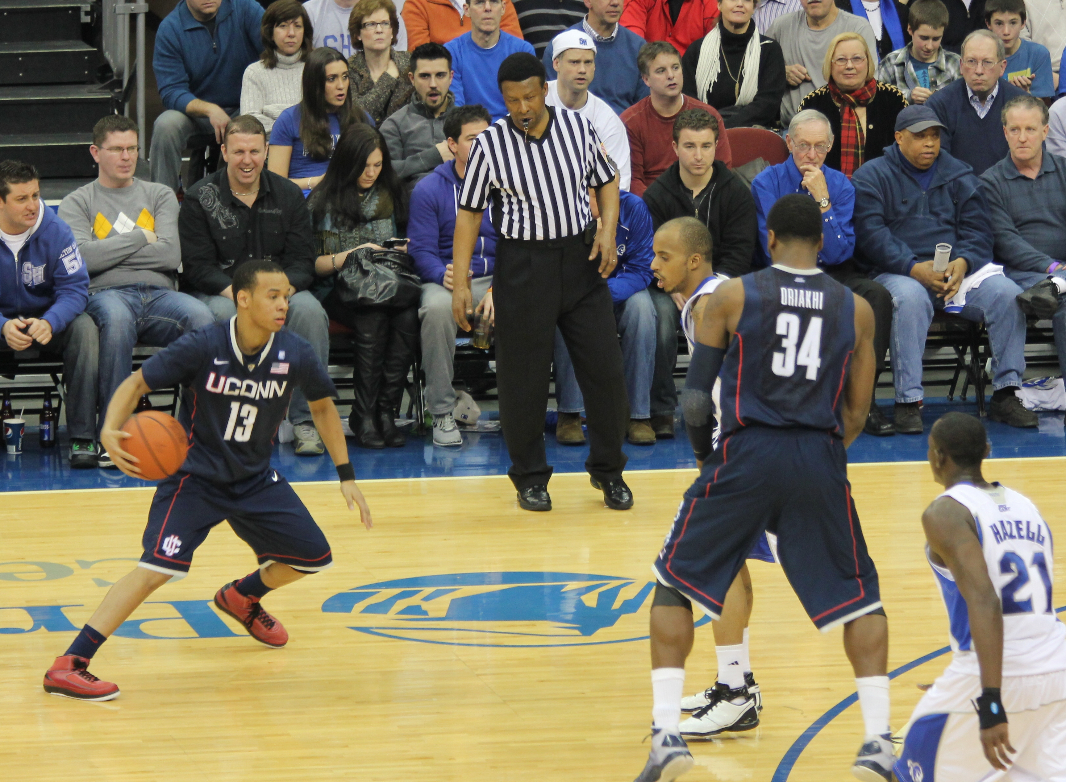 UConn Freshman Shabazz Napier using pick on SHU's Jordan Theodore. 6' 9" Alex Oriakhi, a Lowell, Mass. native, sets the table for Napier. Seton Hall's top scorer, Jeremy Hazell is ready for the switch.